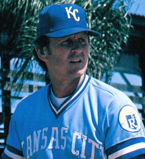 Professional baseball coach Gordy MacKenzie